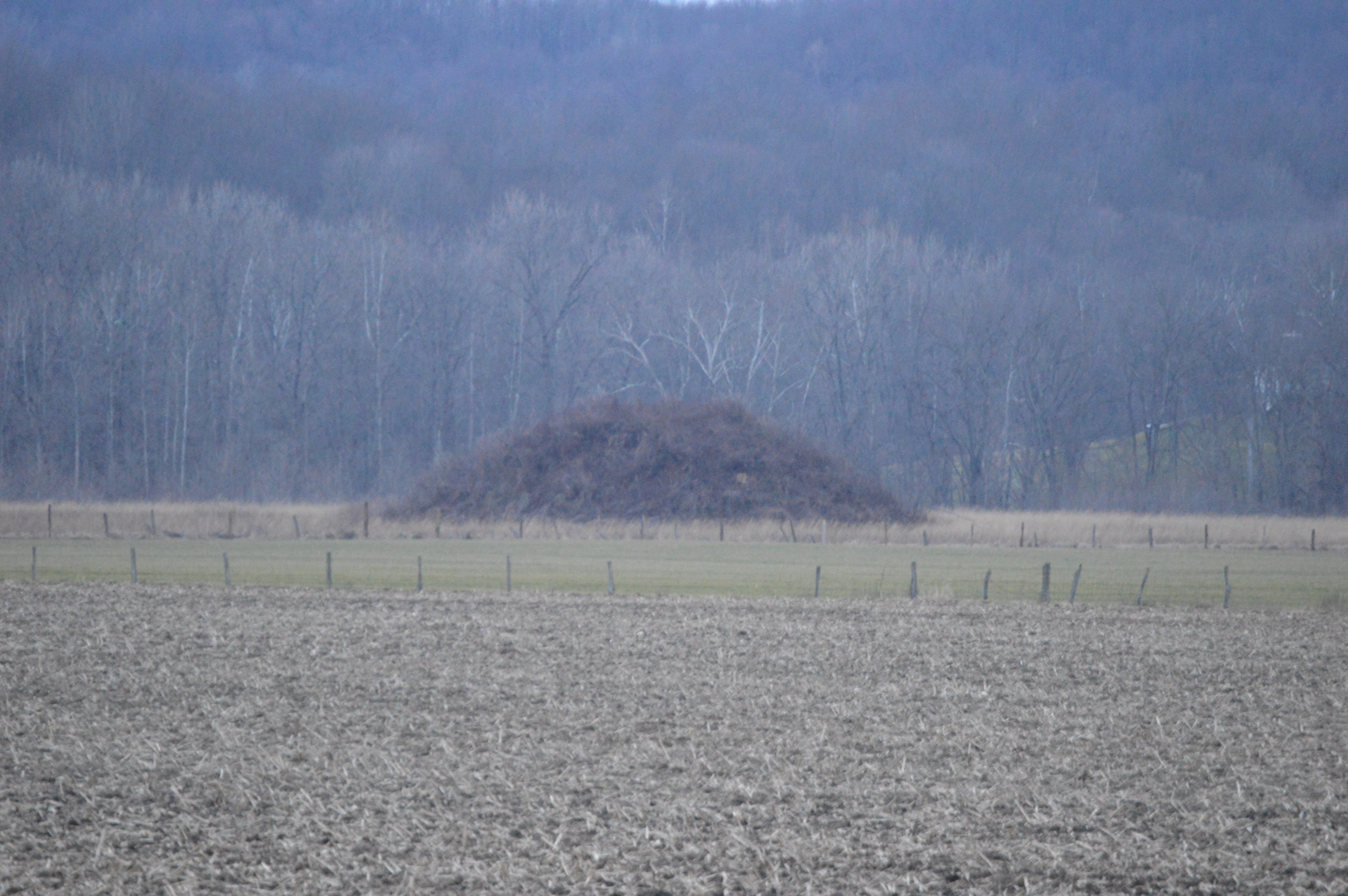 Distant view from the east of the Karshner Mound, located between Salt Creek and State Route 56 southeast of Laurelville in Salt Creek Township, Hocking County, Ohio, United States. As a significant archaeological site, it is listed on the National Register of Historic Places.